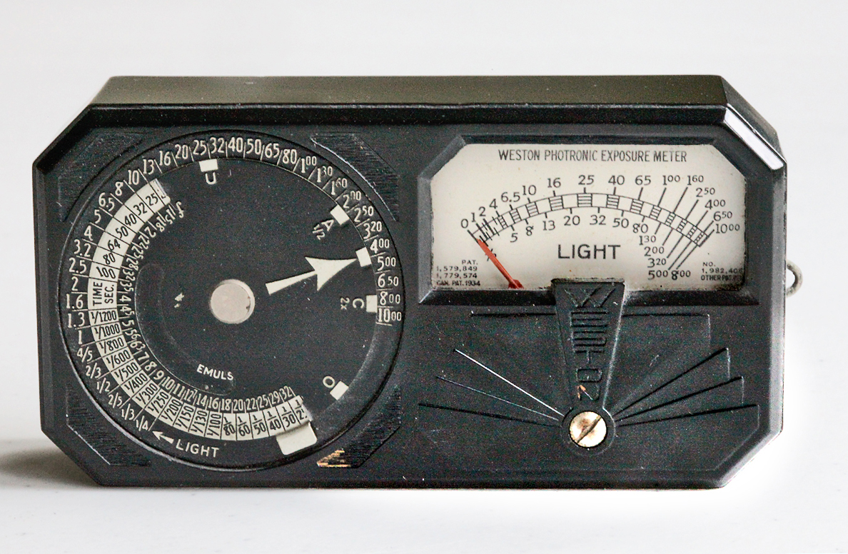 A Weston Model 650 light meter of about 1935-1939. It uses a selenium cell.